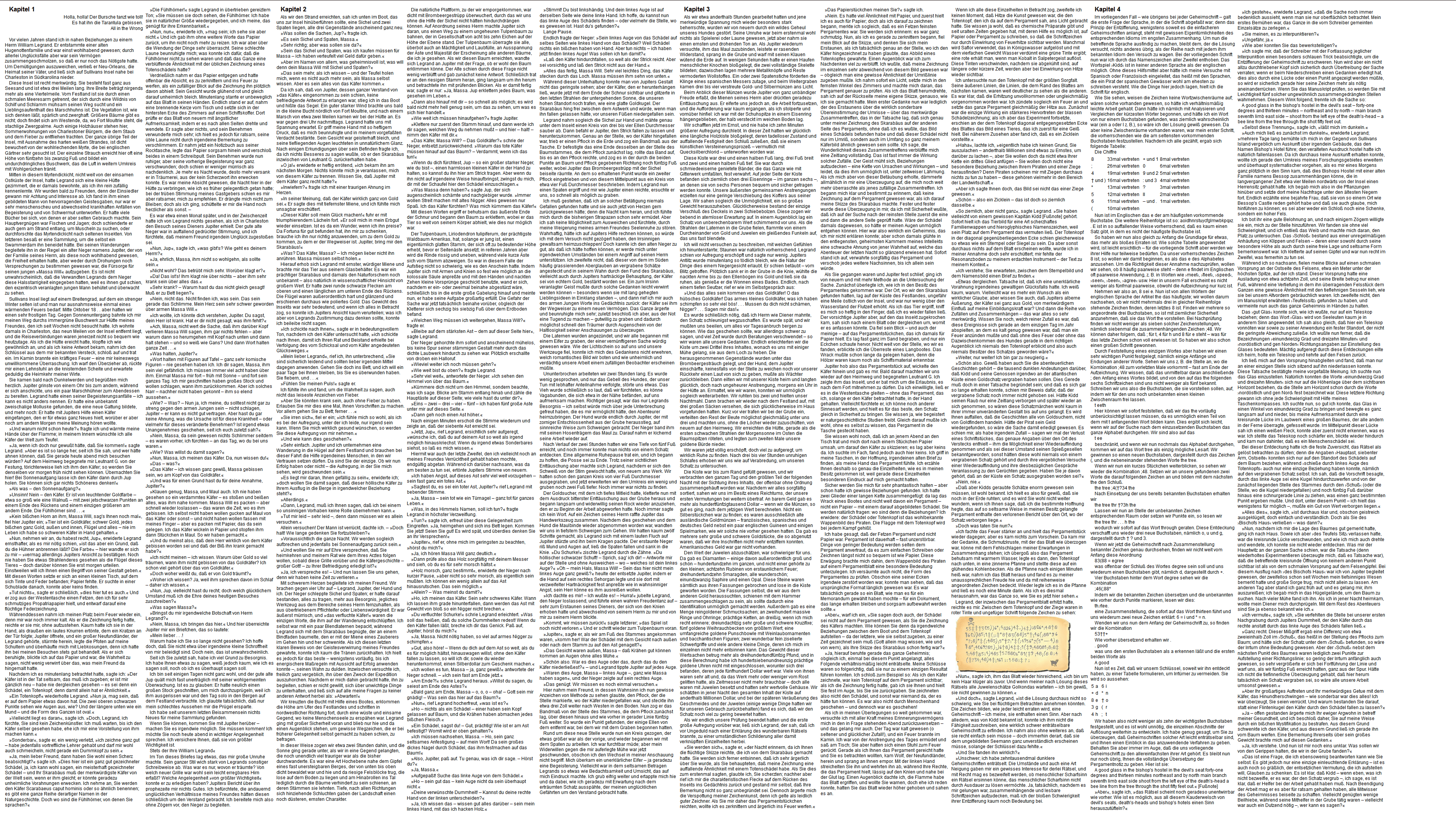 Screen Copy of an 3840x2160 monitor, contains the short novel The Gold Bug by E.A.Poe